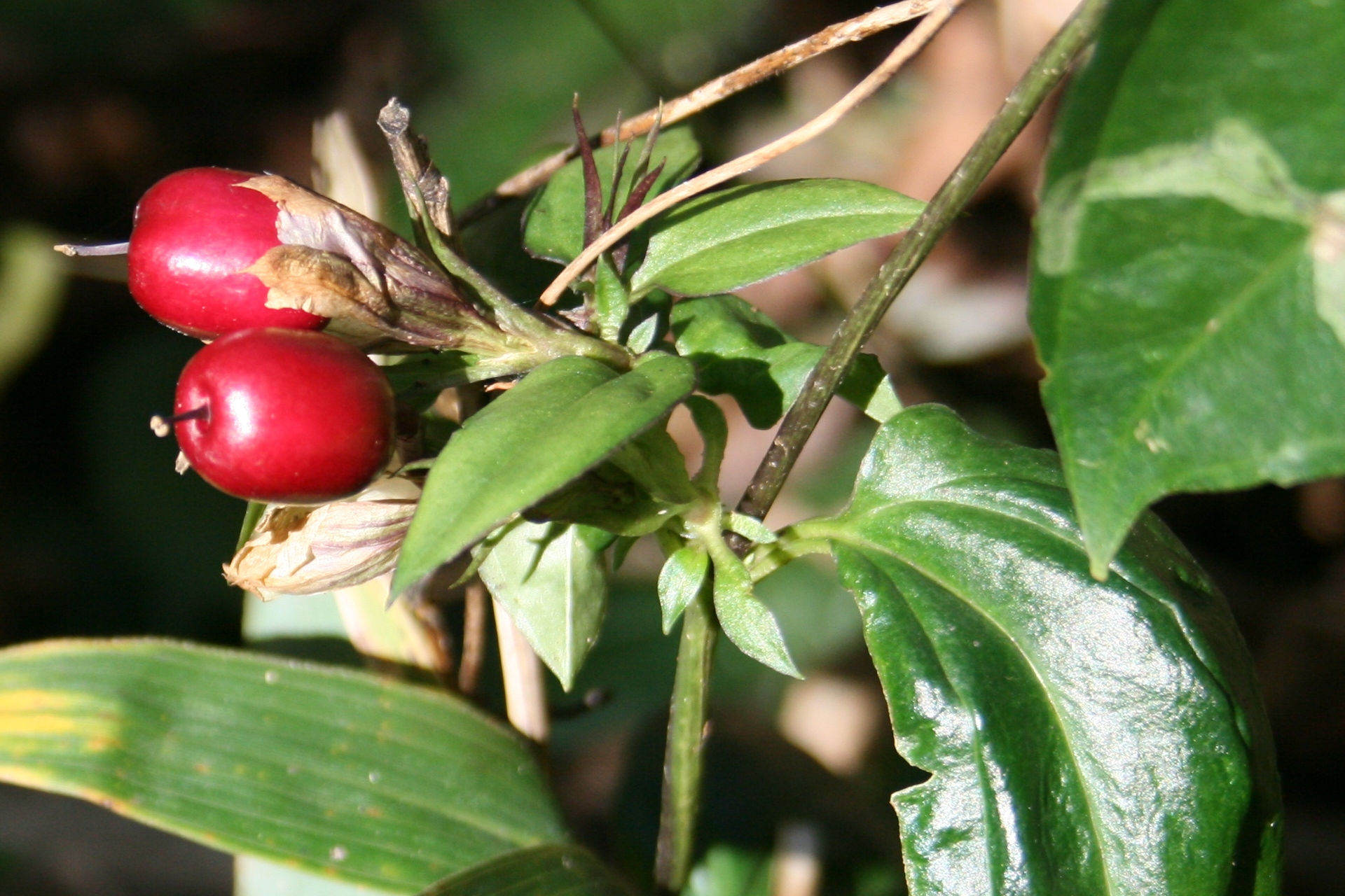 Tripterospermum trinervium (Tripterospermum_japonicum) in Mount Kyō, Fukui pref., Japan.